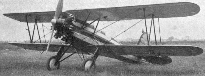 Caproni Ca.113 photo from L'Aerophile Salon 1932